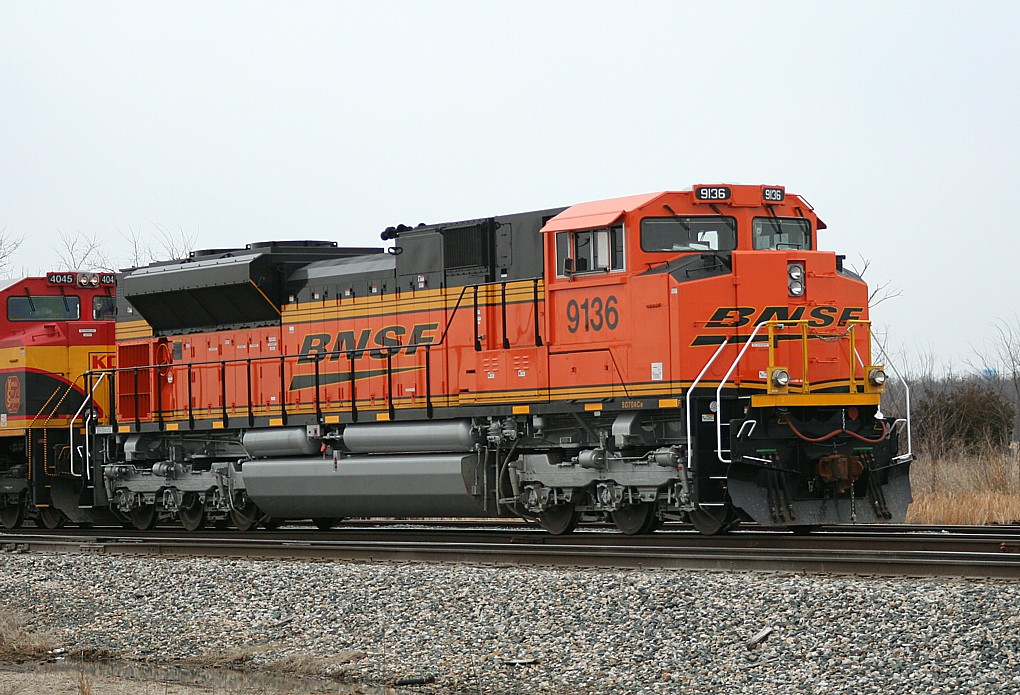 Burlington Northern Santa Fe 9136 EMD SD70ACe [1]